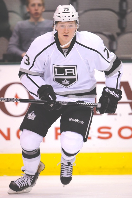 Tyler Toffoli warming up before a game